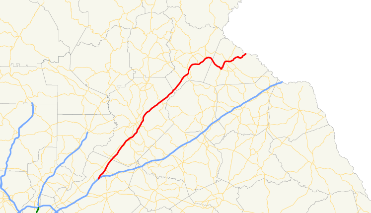 Map of Georgia State Route 365